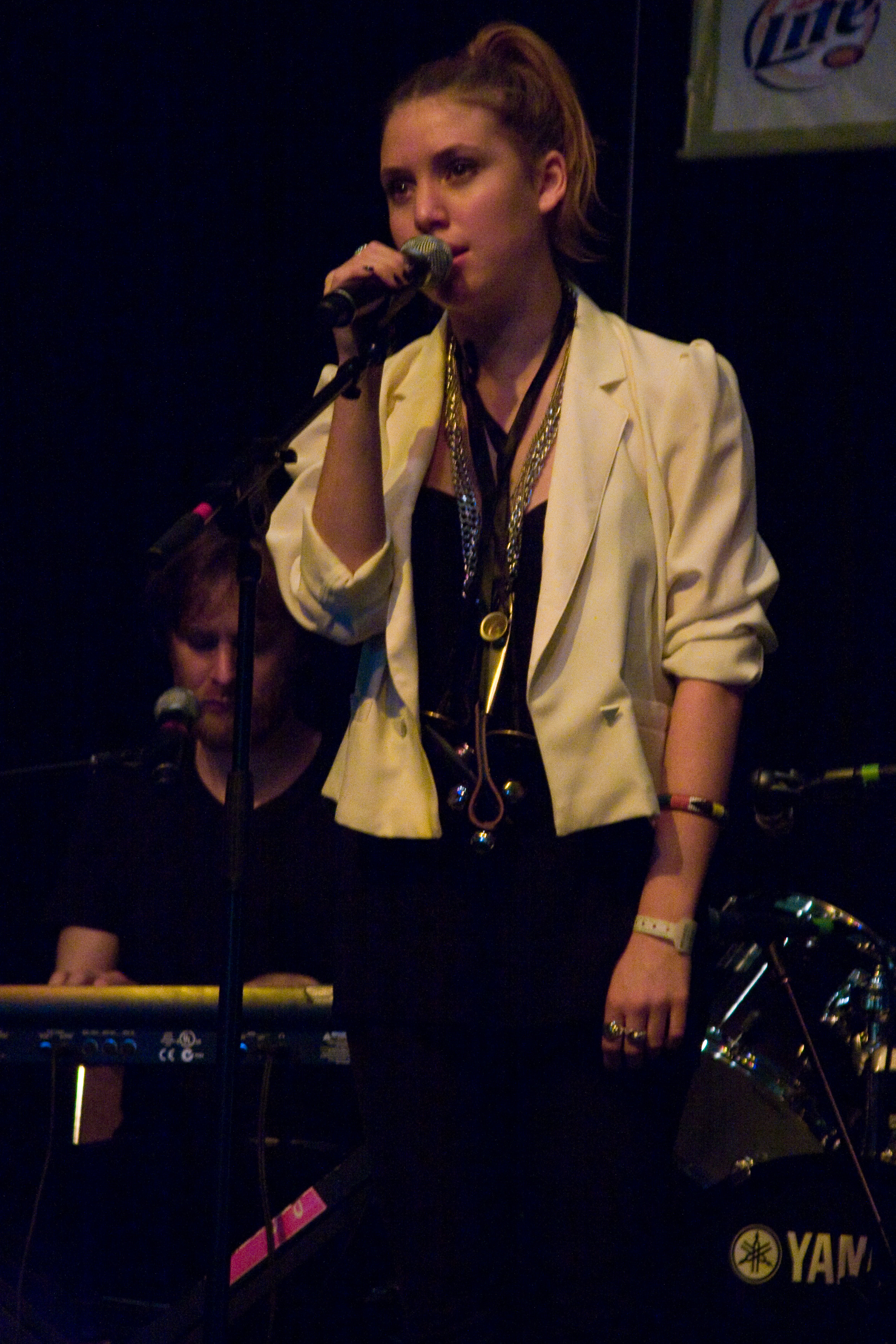 Lykke Li at SXSW08 Day Stage.